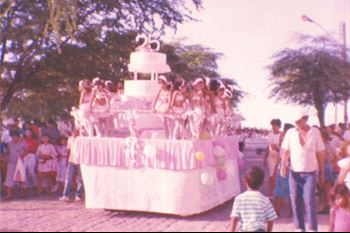 Tradicional Desfile cívico